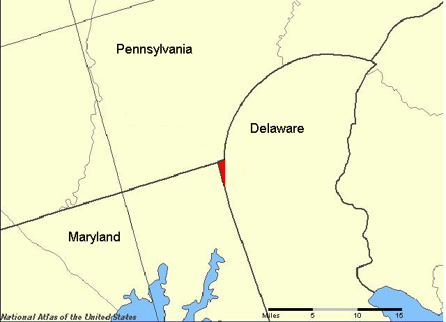 Improved version of another file that makes it more clear where "The Wedge" is.